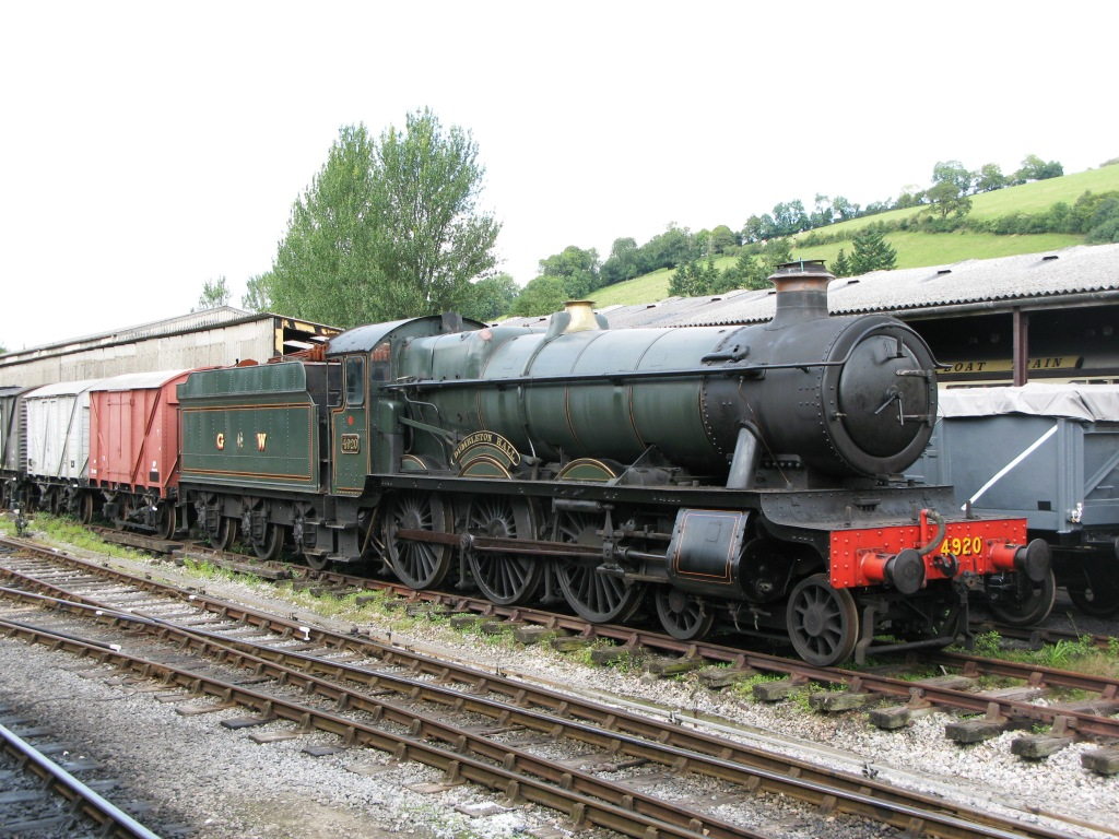 Great Western Railway 'Hall' class 4920 Dumbleton Hall in the yard at Buckfastleigh on the South Devon Railway, England.